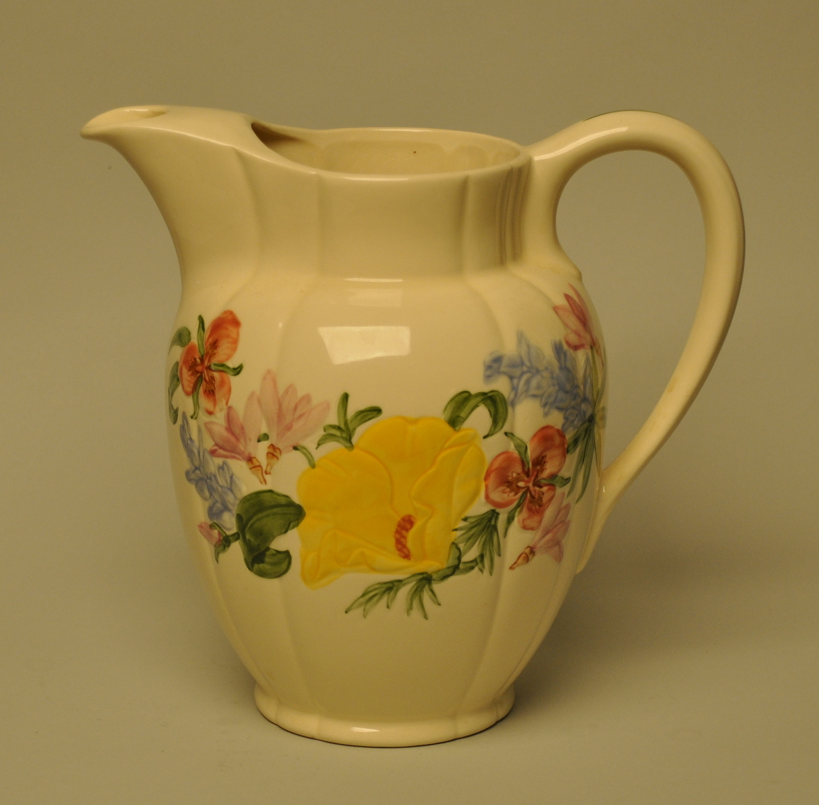 Gladding, McBean & Co. Franciscan Ware Wild Flower pitcher